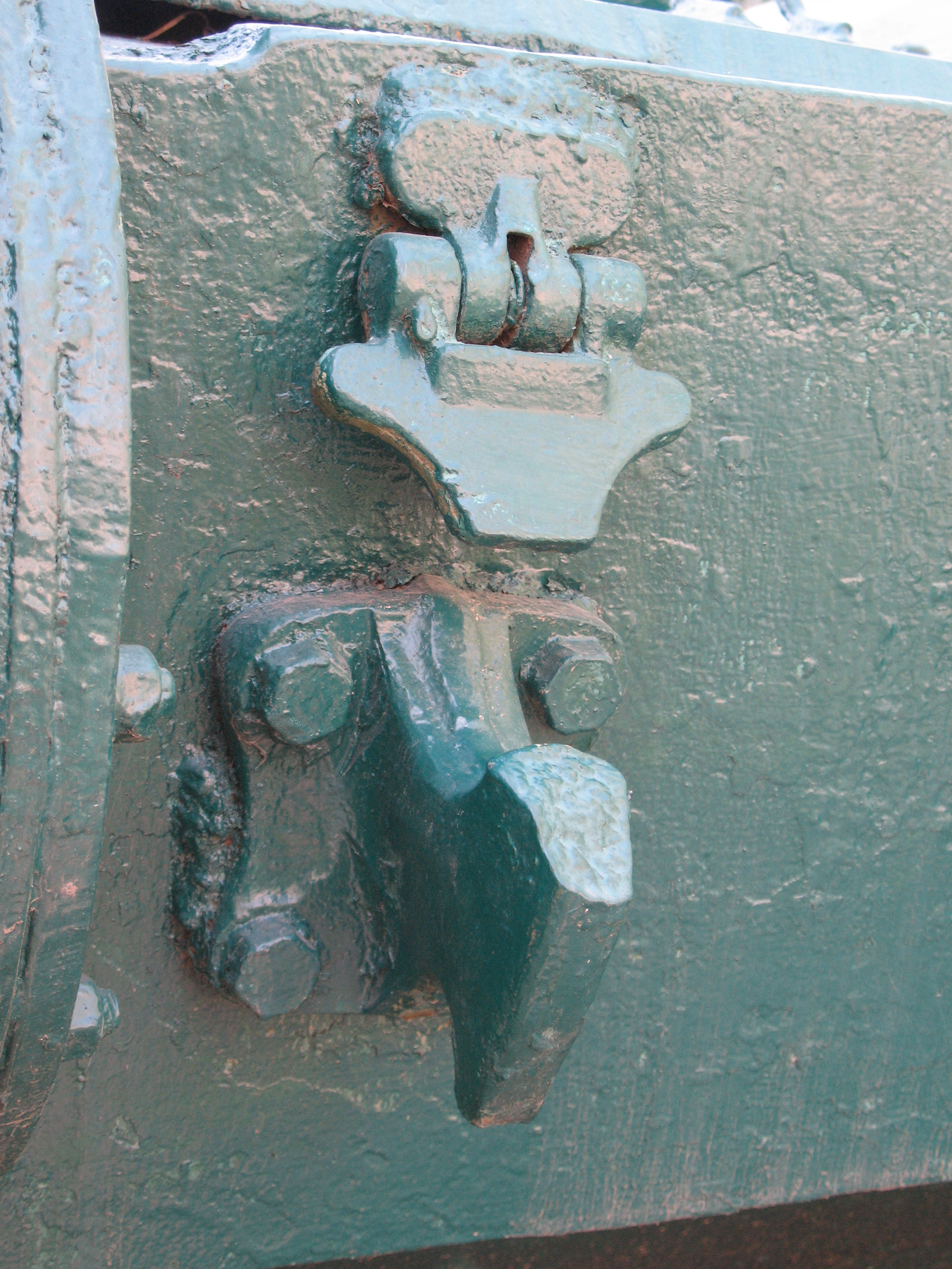 T-70М Soviet WWII tank. Monument in Solonitsevka.